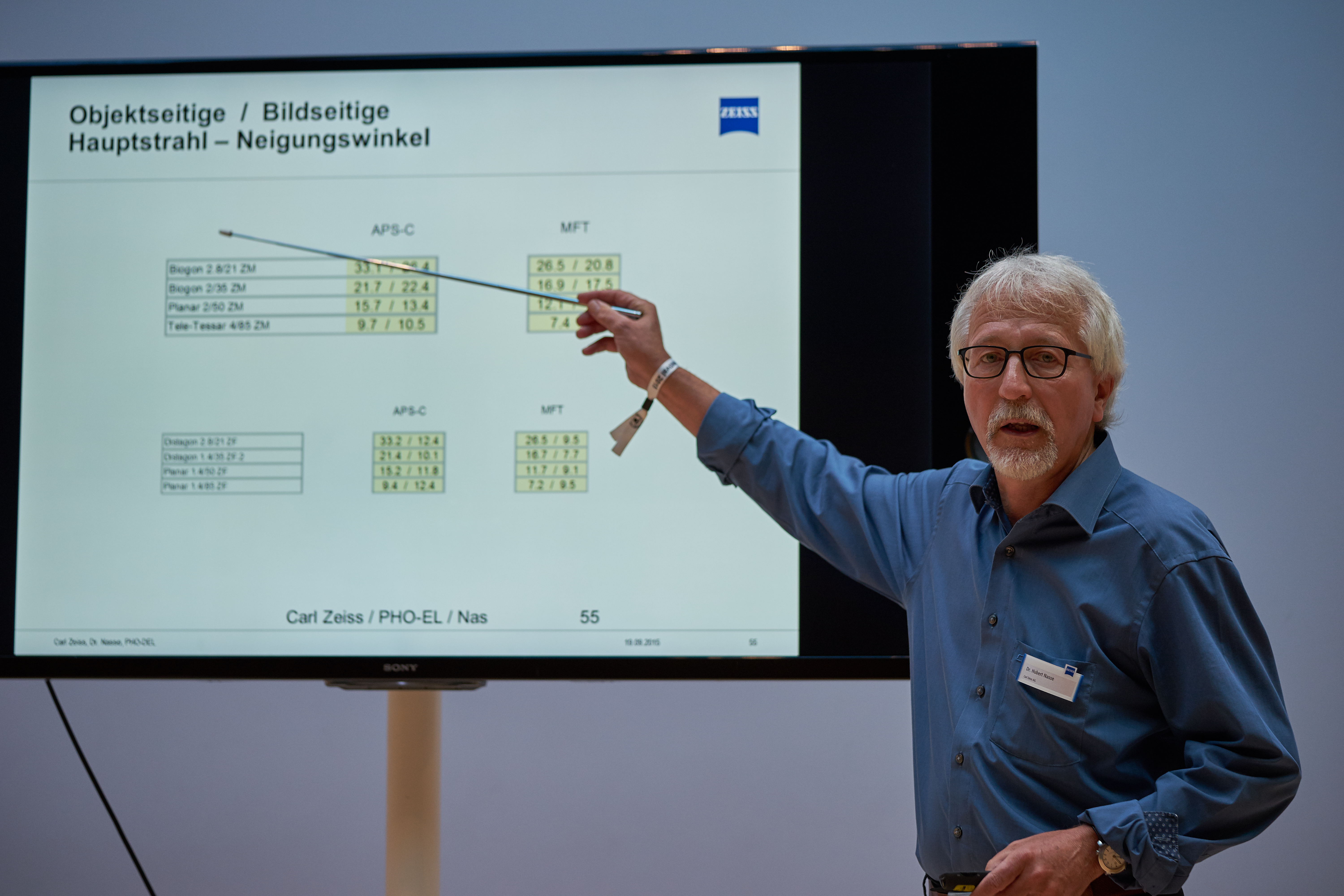 Dr. Hubert Nasse, Staff Scientist at Carl Zeiss Camera Lenses giving a talk at the alpha-Festival in the Willy-Brandt-Haus, Berlin on September, 19 2015